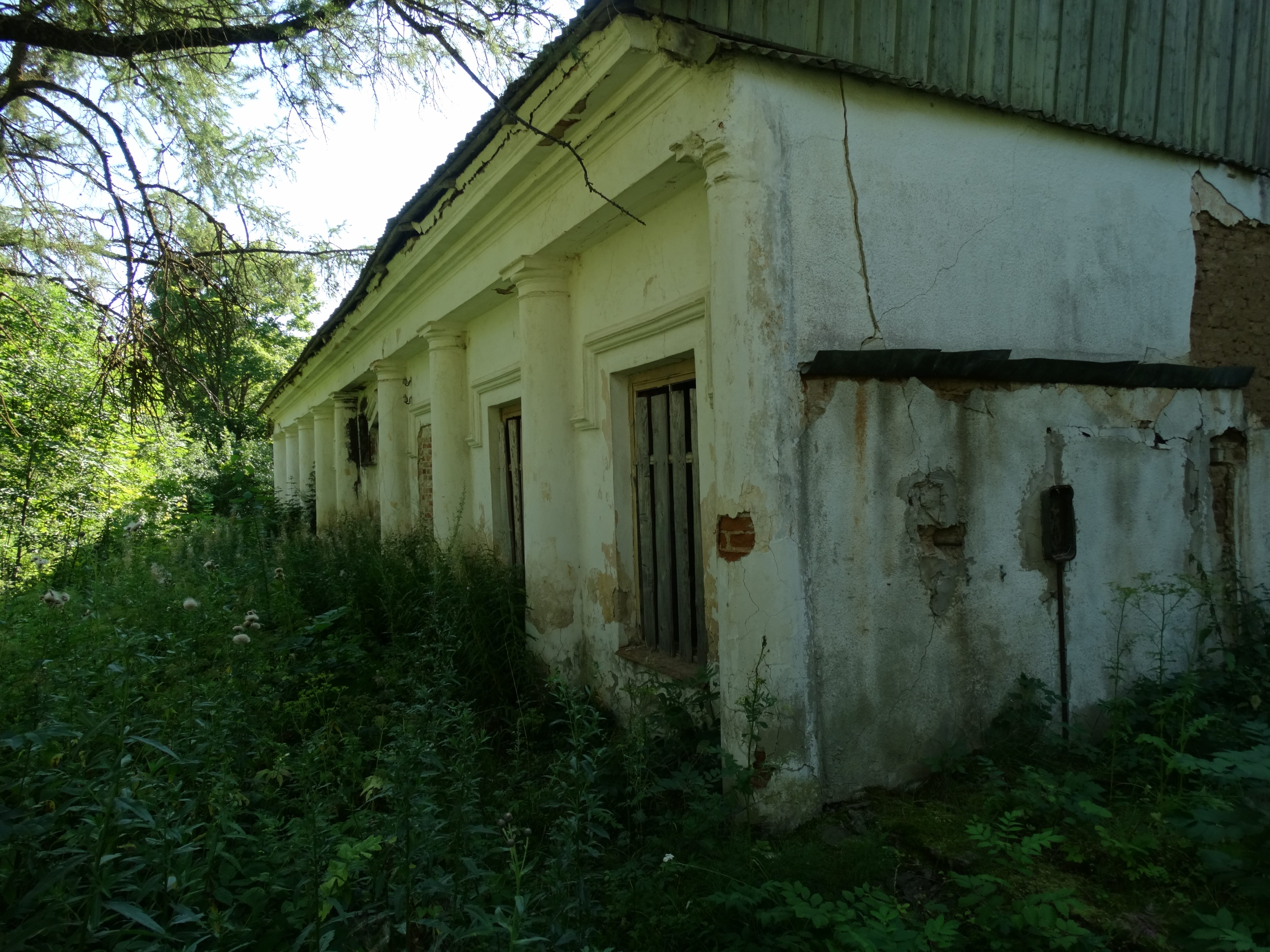 Šarkiai, Joniškis district, Lithuania